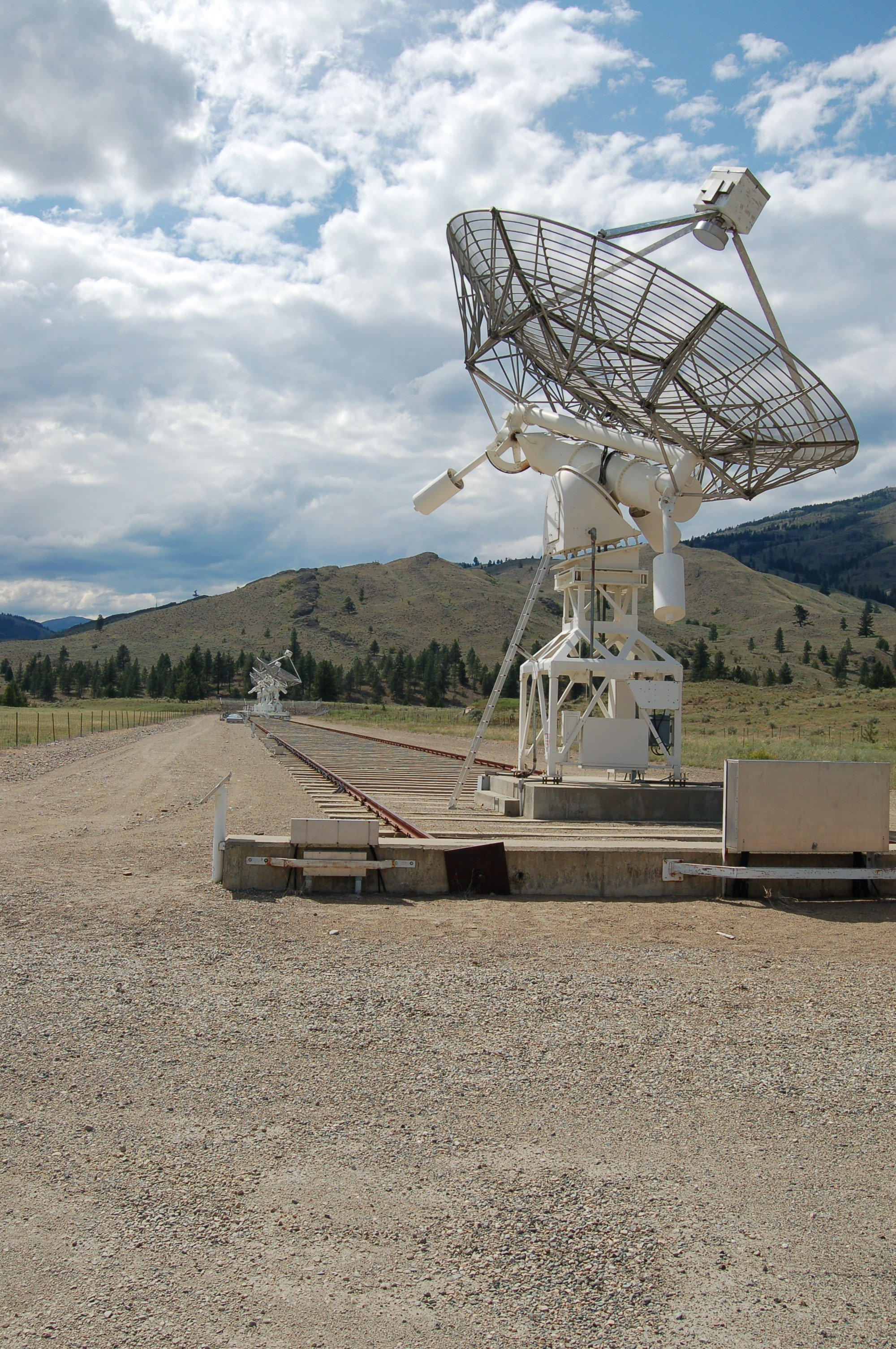 Dominion Radio Astrophysical Observatory Synthisis telescope.